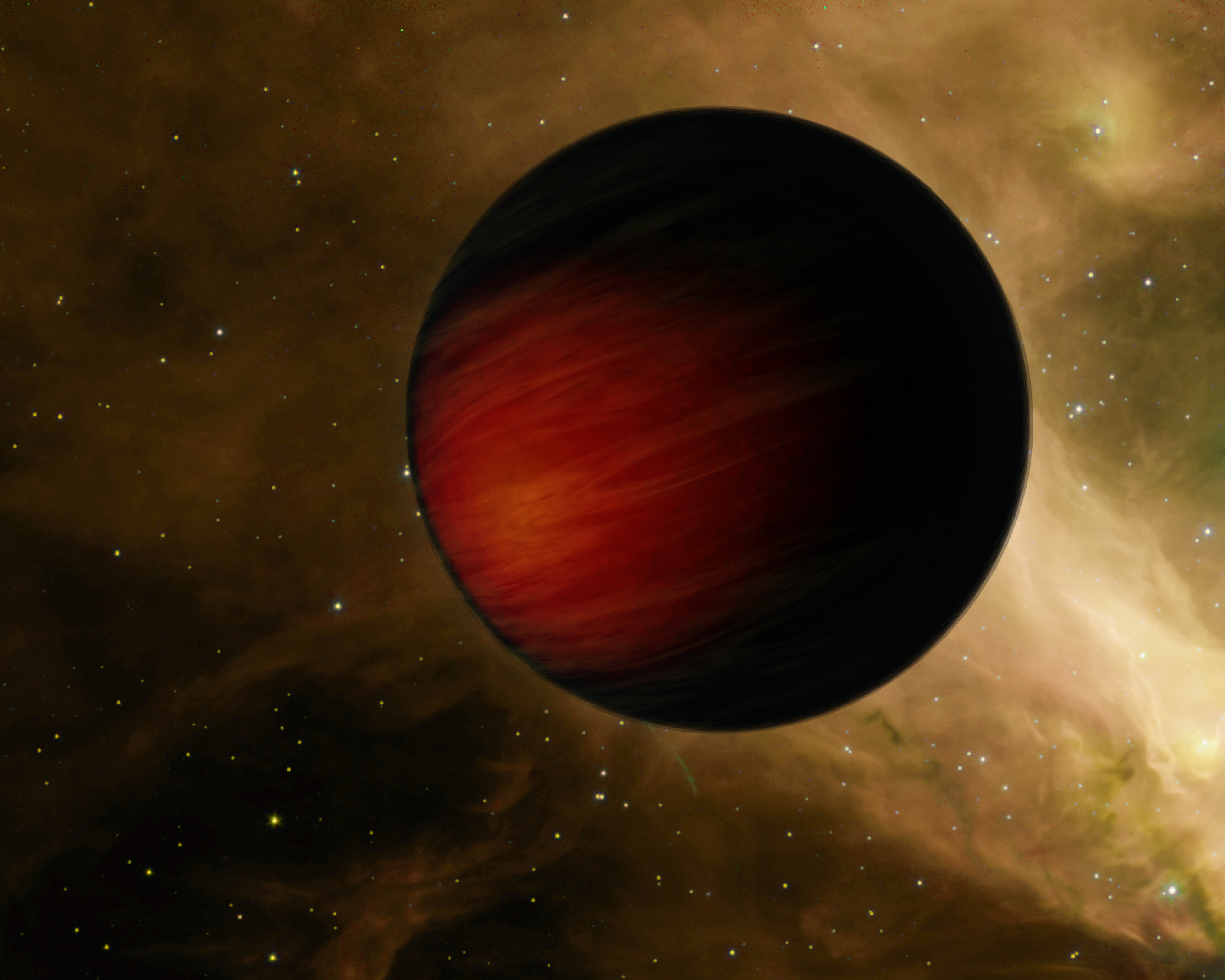 This artist's concept illustrates the hottest planet yet observed in the universe. The scorching ball of gas, a "hot Jupiter" called HD 149026b (0.36 MJ), is a sweltering 3,700 degrees Fahrenheit (2,040 degrees Celsius) -- about 3 times hotter than the rocky surface of Venus, the hottest planet in our solar system. The planet is so hot that astronomers believe it is absorbing almost all of the heat from its star, and reflecting very little to no light. Objects that reflect no sunlight are black. Consequently, HD 149026b might be the blackest known planet in the universe, in addition to the hottest.